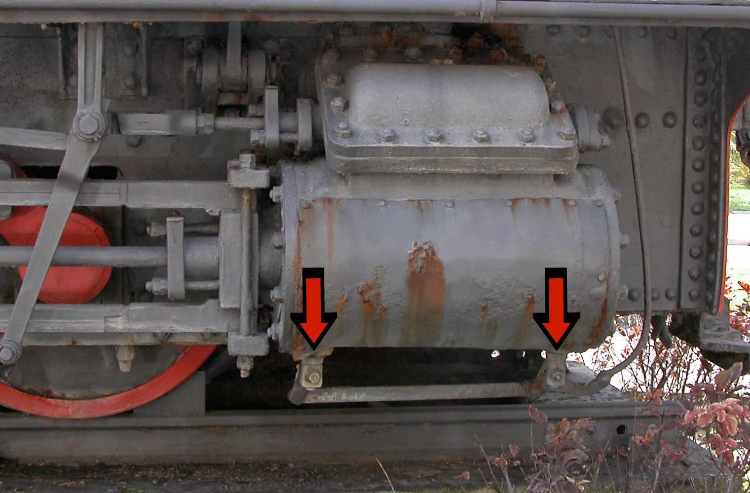 Drain coks